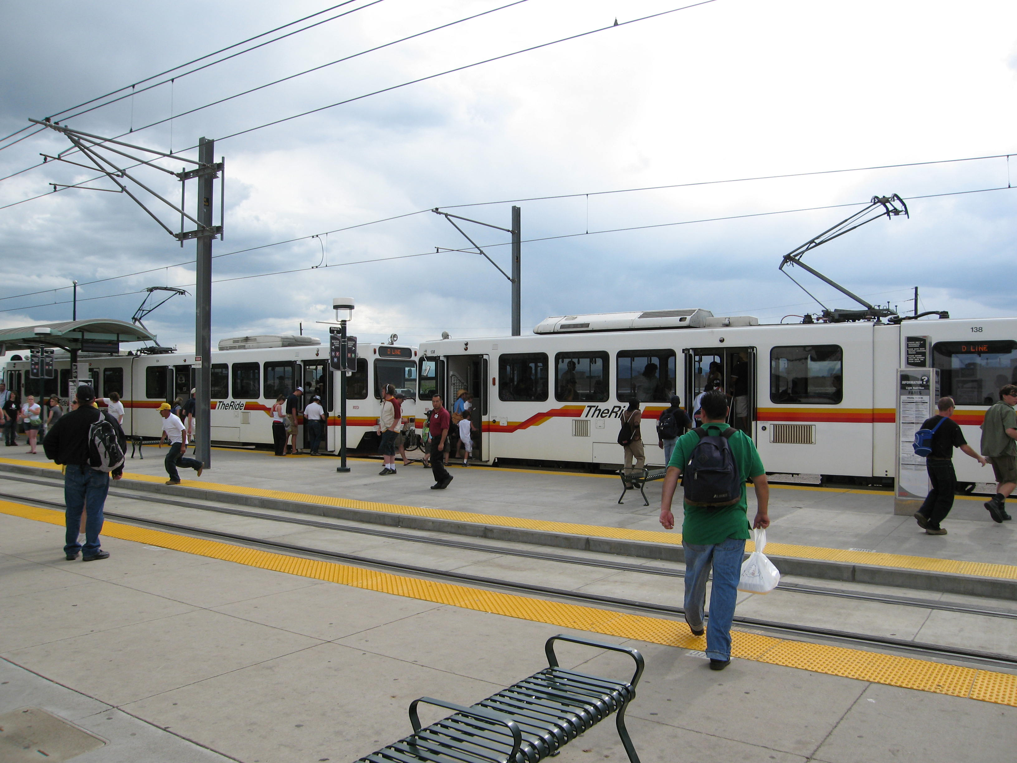 Personally taken by me (MobyLL), with a digital Camera, May 20, 2007